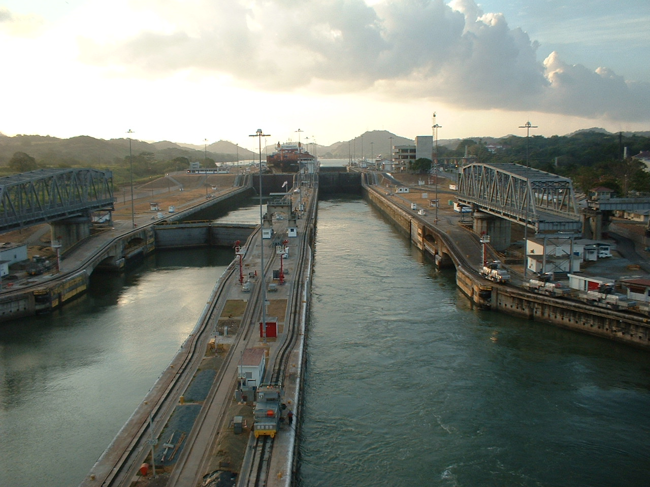 turning bridge panama canal